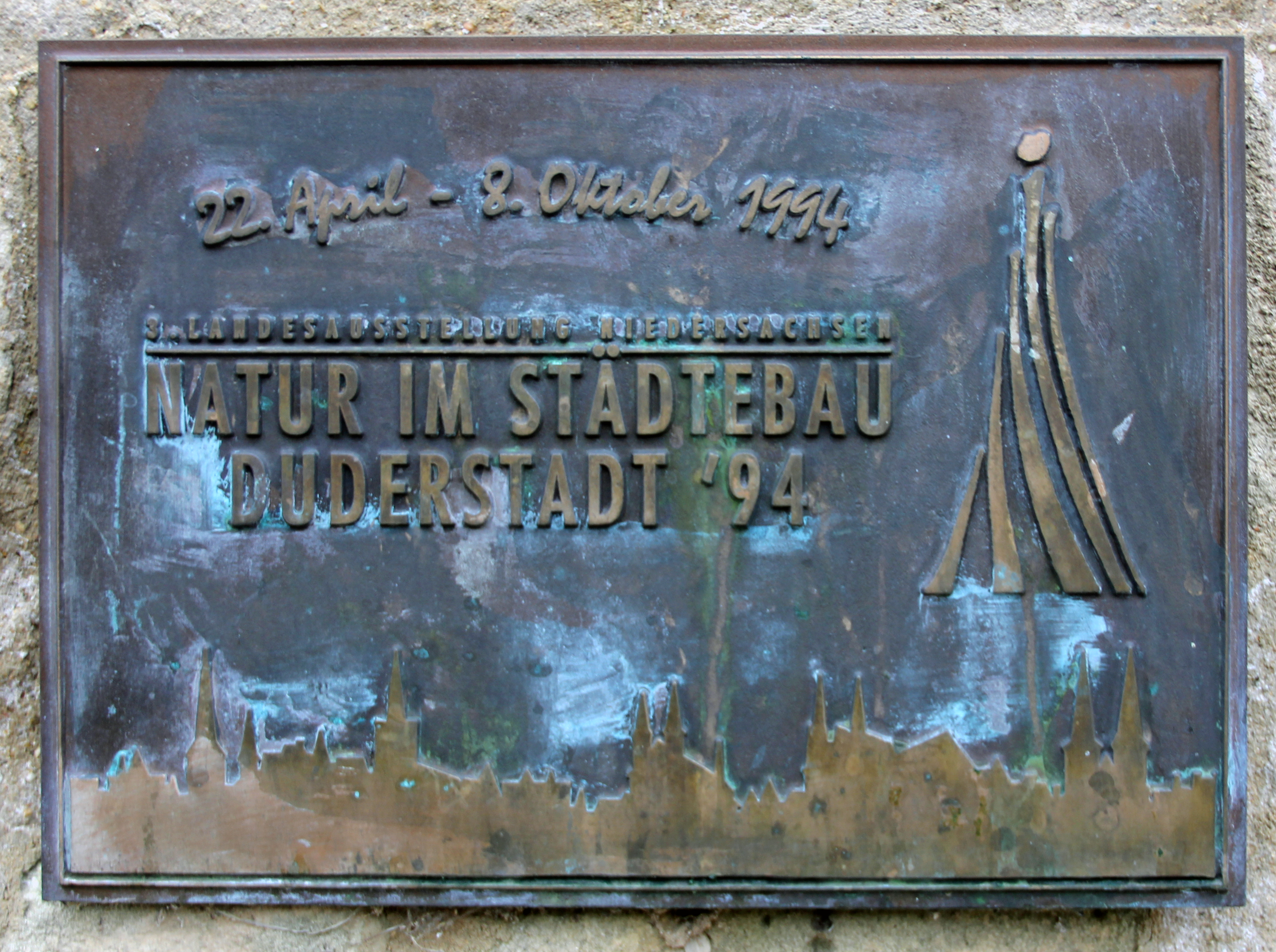 Memorial plaque, Natur im Städtebau, Hinter der Mauer, Duderstadt, Deutschland